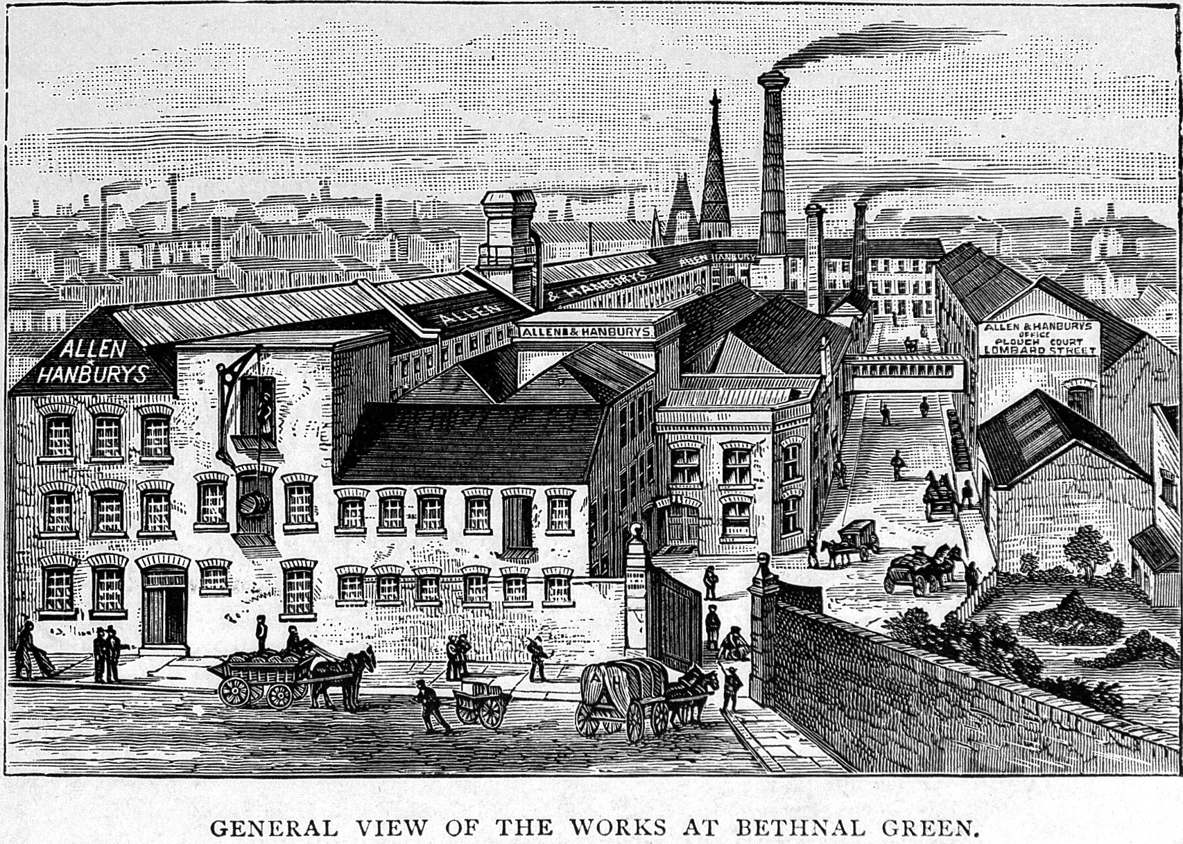 Pharmacy: General view of Allen & Hanburys works at Bethnal Green General Collections Keywords: allen and hanbury; gcp; slide 4139